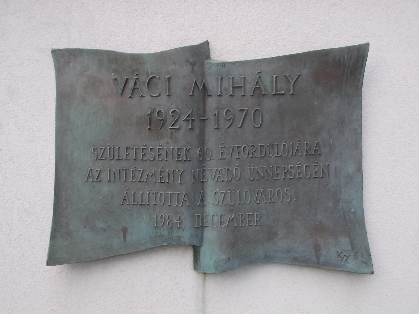 Mihály Váci bronze plaque-sign-sculpture? (1984) at the Cultural Center named after Mihály Váci planned by Ferenc Bán. - Szabadság Square, Nyíregyháza, Szabolcs-Szatmár-Bereg County, Hungary.